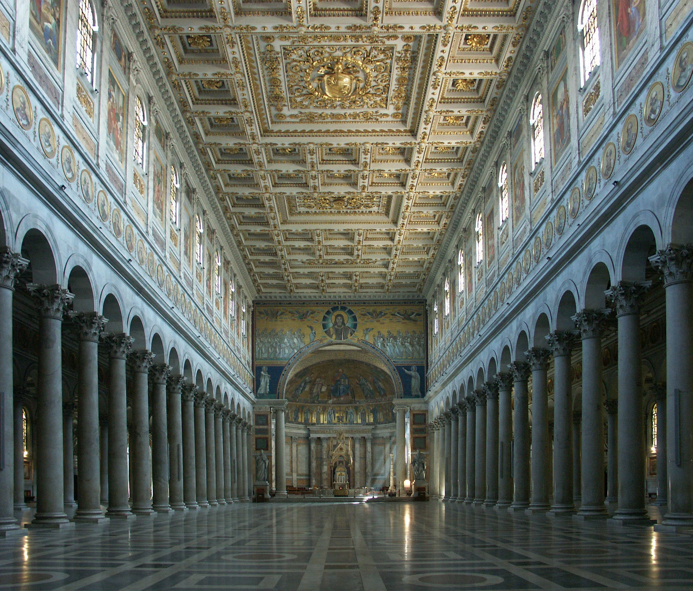 Rom, Interior of Basilica of Saint Paul Outside the Walls